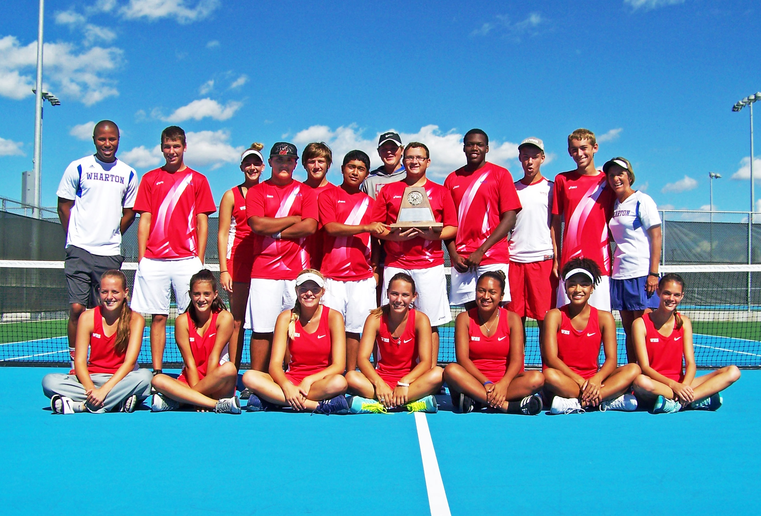 The Wharton ISD Wharton High School Tennis Team is the 2015-16 District 27 and Area Team Tennis Champs, and the Region IV 4A Team Tennis Runner-up.